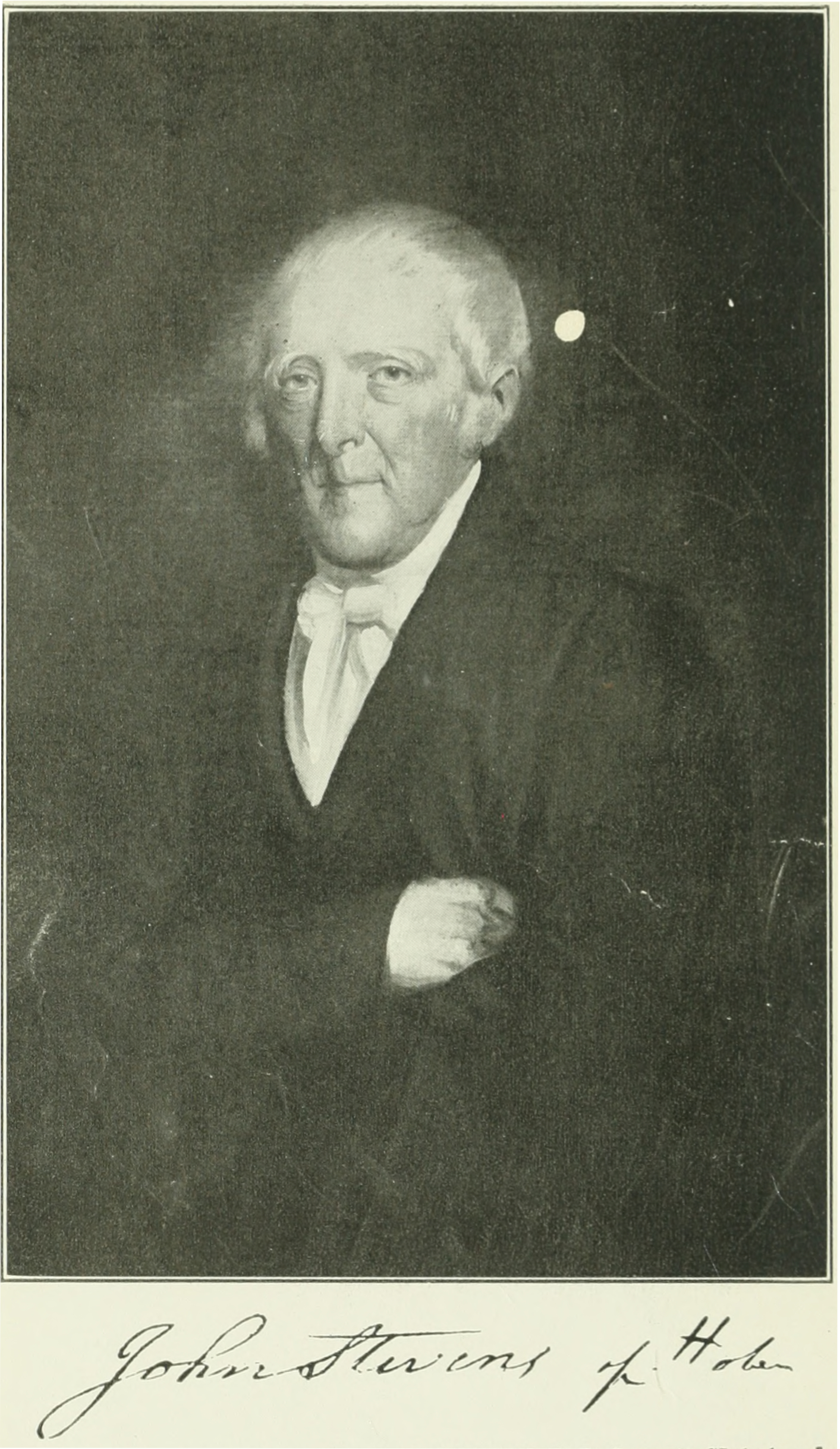 John Stevens (inventor) of Hoboken, New Jersey. Below it says "From a portrait in the possession of Miss M. B. P. Garnett, Hoboken".